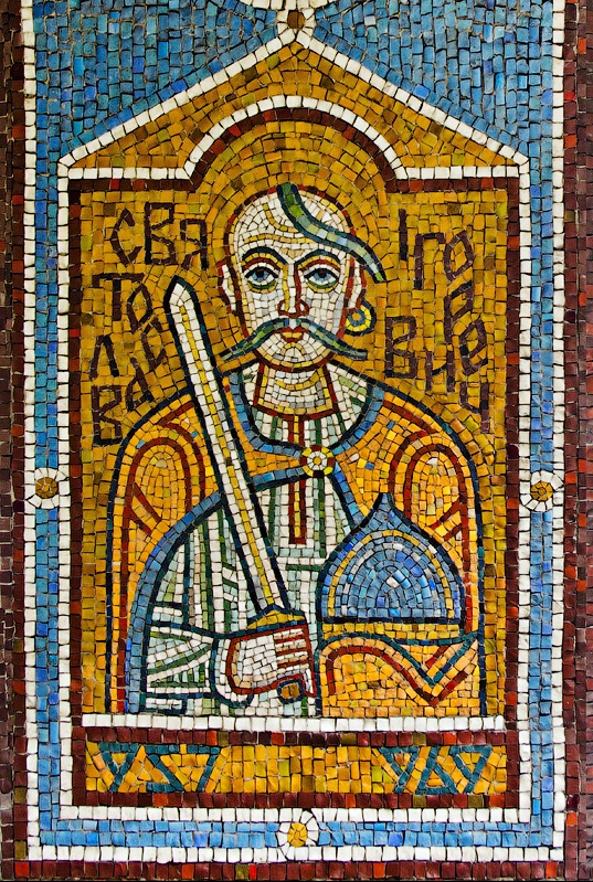 Mosaic of Sviatoslav I the Brave (r.962-972)